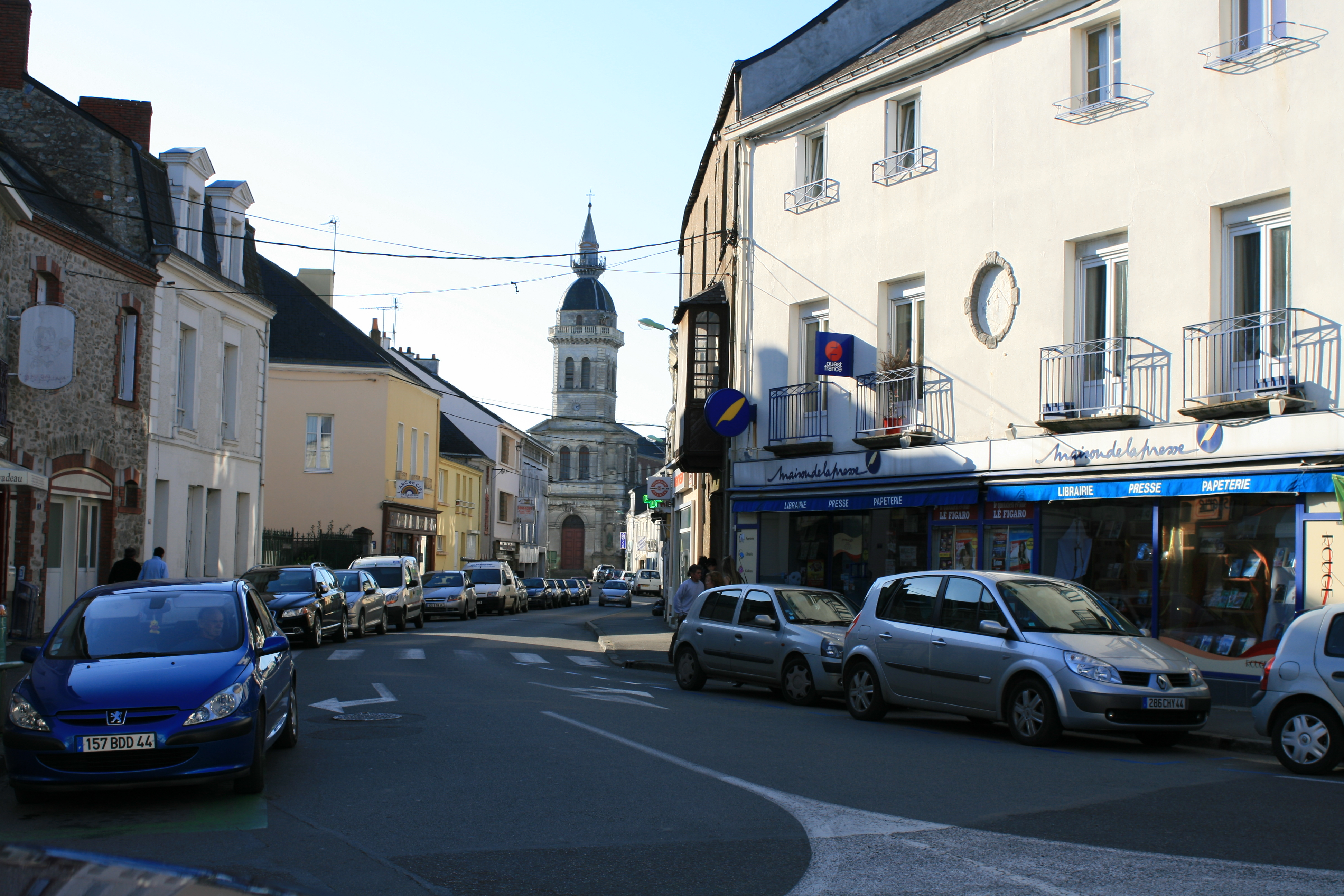 Shops in Savenay, Loire-Atlantique, France